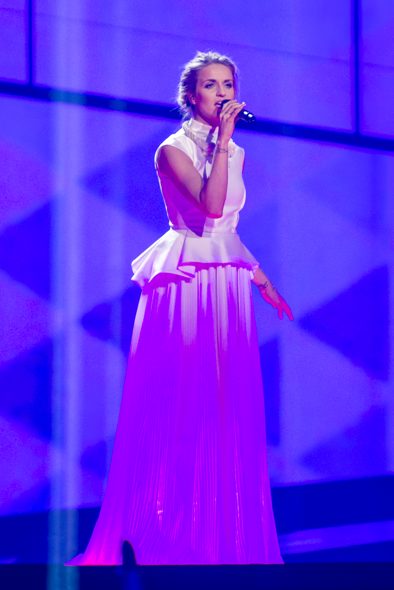 Gabriela Gunčíková representing Czech Republic with the song "I Stand" during a rehearsal before the first semi final of the Eurovision Song Contest 2016 in Stockholm. (Help translate this text)